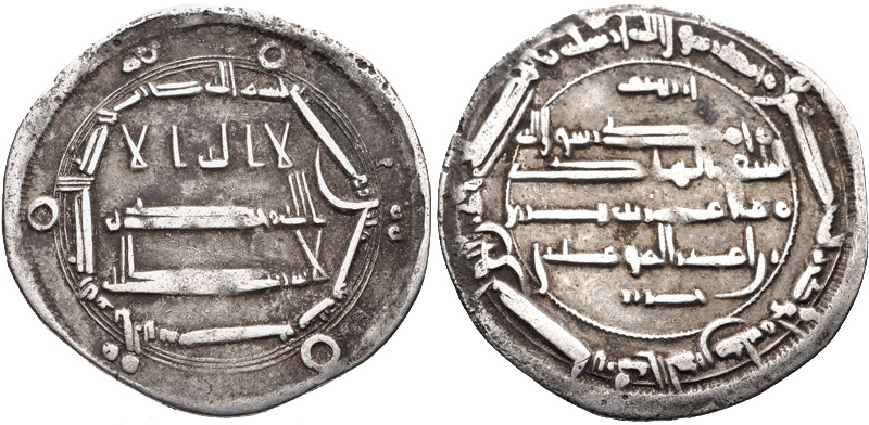 ISLAMIC, 'Abbasid Caliphate. Al-Hadi. AH 169-170 / AD 785-786. AR Dirhem (24mm, 2.88 g, 4h). al-Haruniya mint. Dated AH 170 (AD 786/7). Album 217. VF, light encrustation.